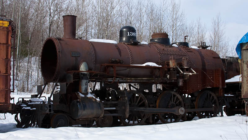 The boiler, frame, running gear and major components of Chicago & North Western 1385, while the locomotive is undergoing restoration work at Mid-Continent Railway Museum.